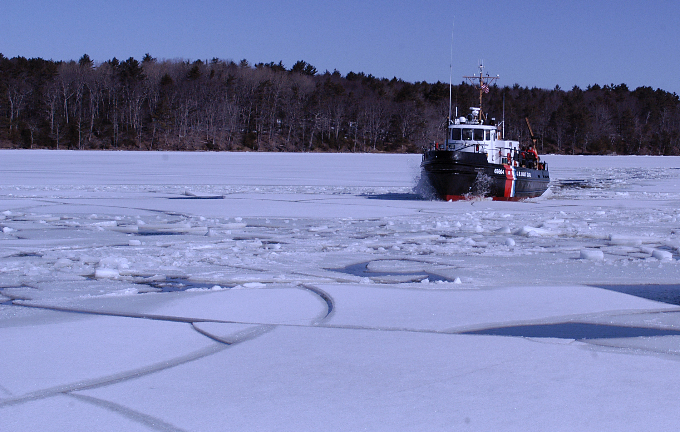 BATH, Maine - The Coast Guard Cutter Tackle breaks ice on the Kennebec River in Bath, Maine, Monday, March 17, 2008. The Tackle breaks ice annually on the river to help prevent flooding when the ice melts in the spring. (Coast Guard photo/Sabrina Elgammal)